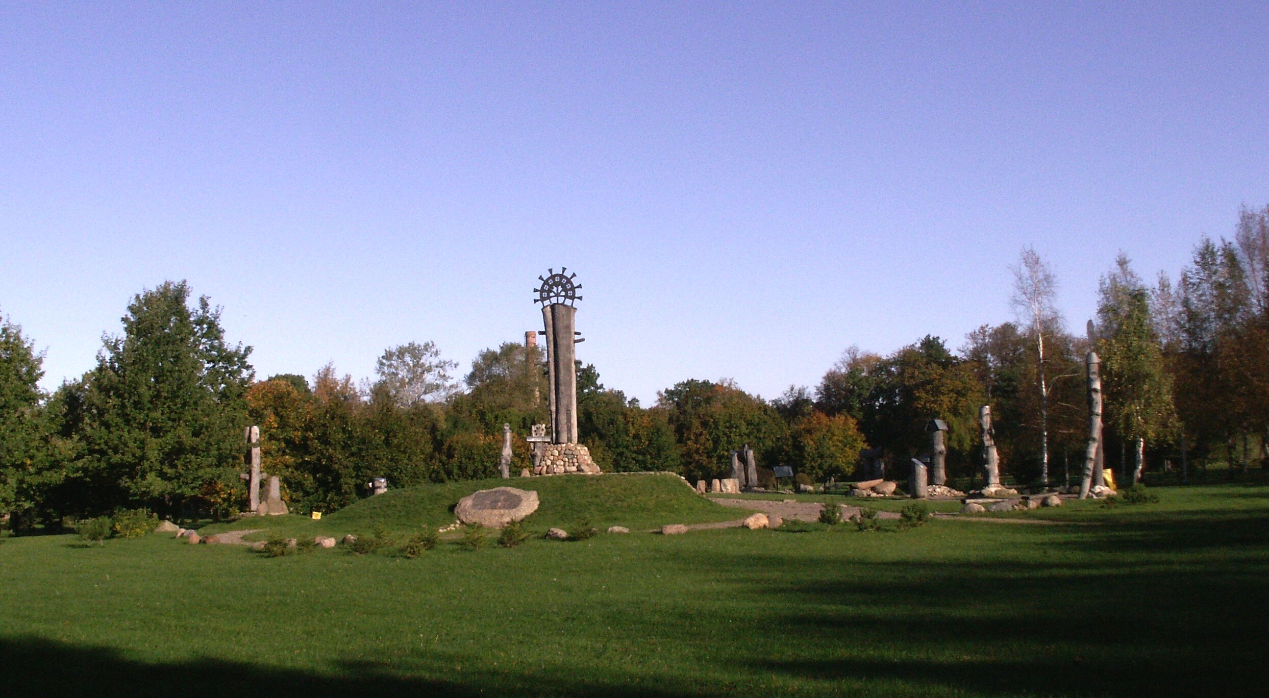 Kretinga manor, Lithuania